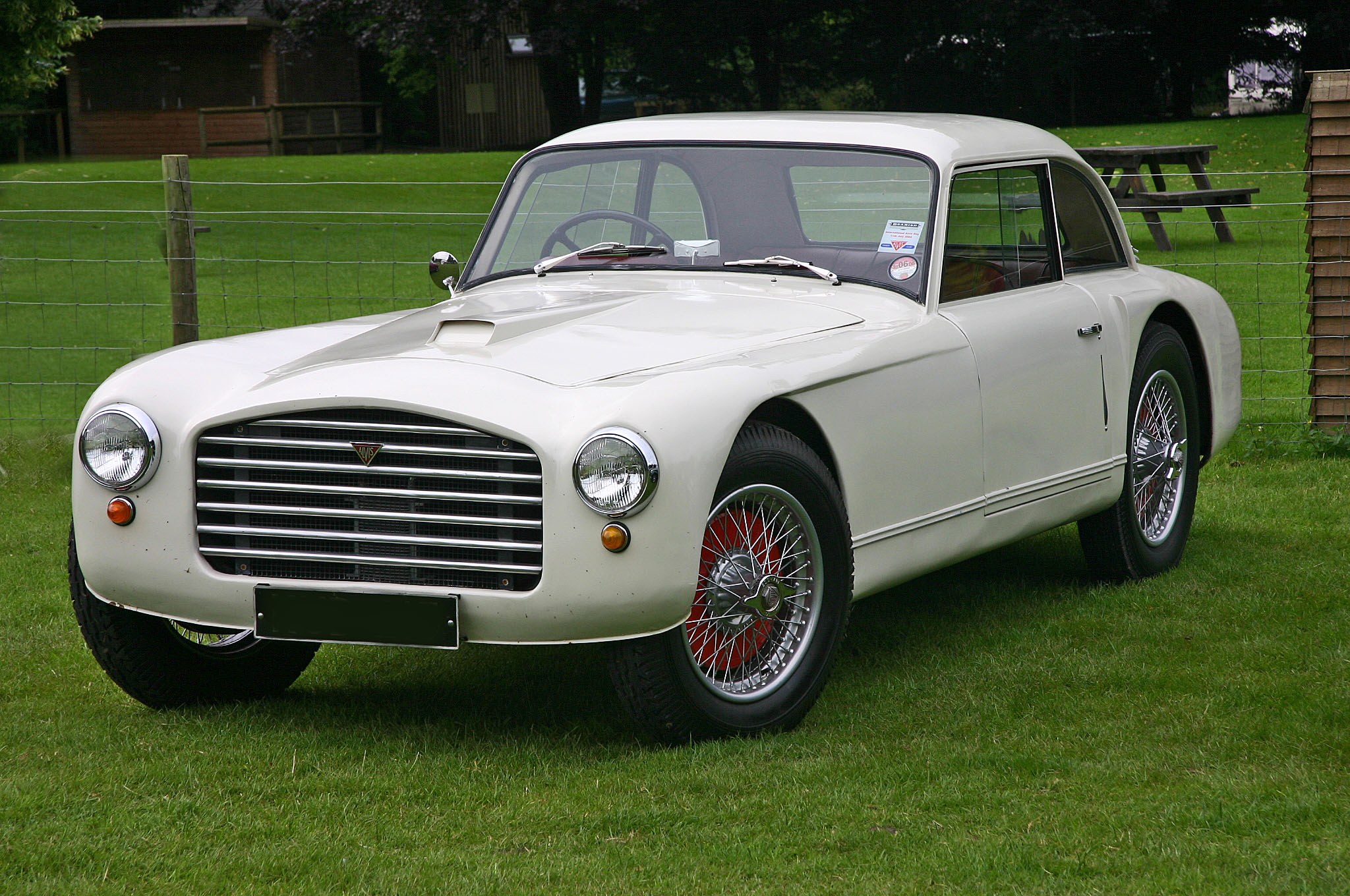 Alvis Crested Eagle Paramount- bodied Coupe. Manufactured as an Alvis Crested Eagle in 1933 and then kept by the works. In 1946 it was purchased by Paramount Cars in Derbyshire and this lightweight body fitted, possibly as a prototype for a future sports car.